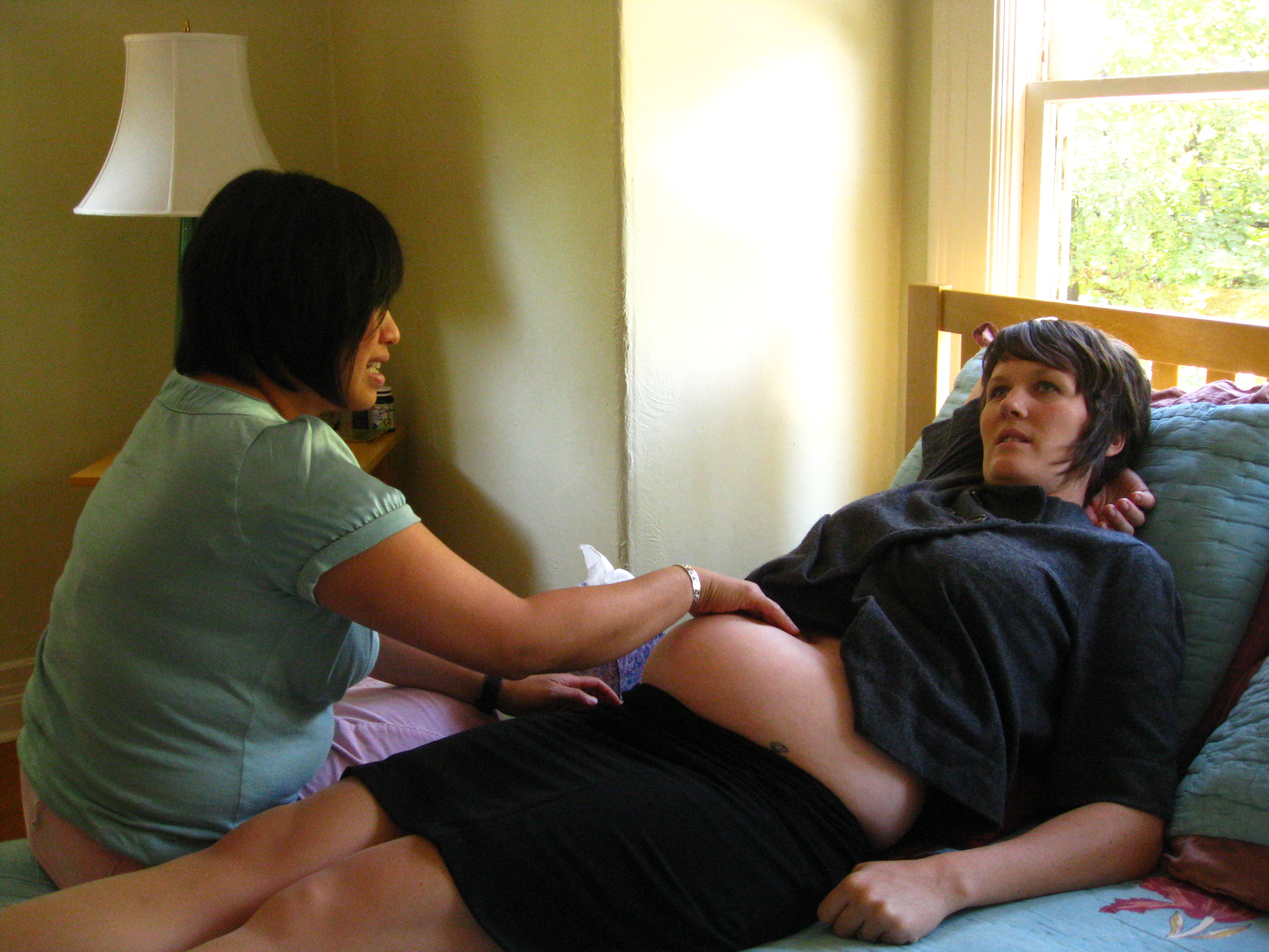 A midwife measures the height of the mother's fundus at about 26 weeks to determine the probable gestational age of the fetus.